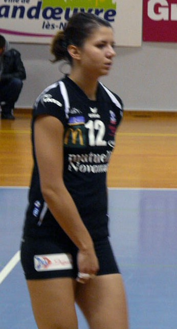 Swedish volleyball player Aïda Rejzovic